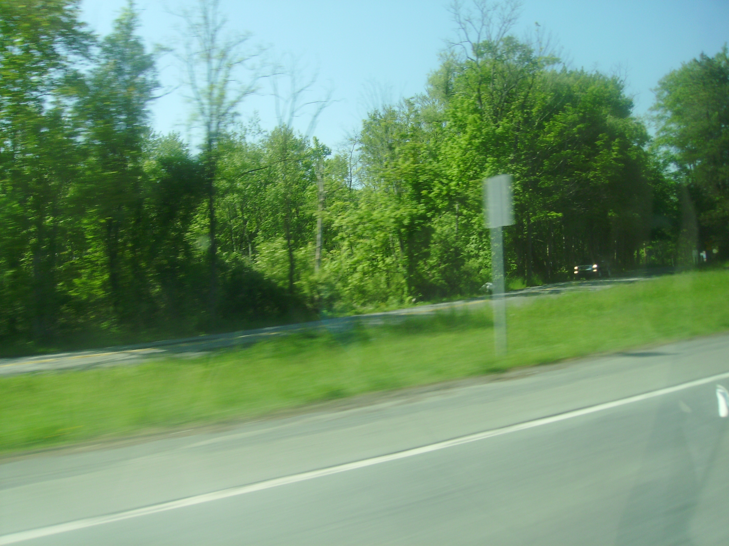 View down former Pennsylvania State Route 945 outside of Shawnee, Pennsylvania.